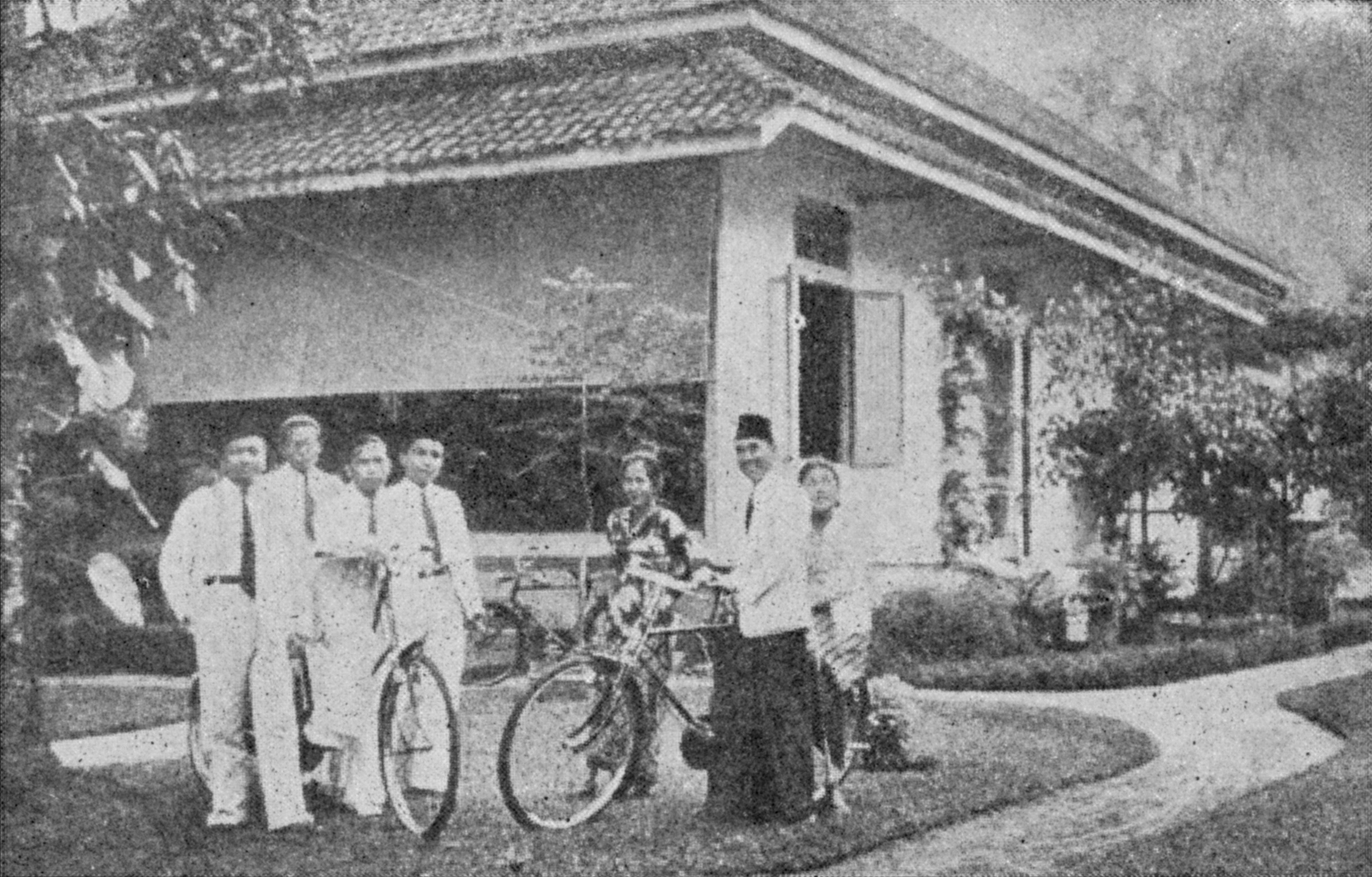 Sukarno in exile in Bengkulu, 1939. He is between his wife Inggit Garnasih and his adopted daughter Ratna Djuami